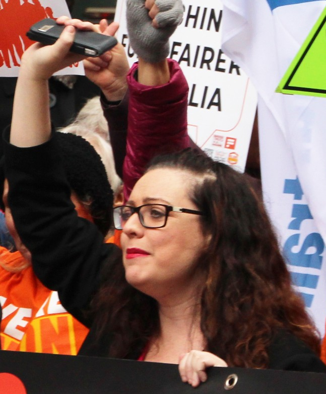 Australian writer and social commentator Van Badham at Bust the Budget Melbourne march and rally.